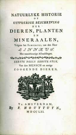 Titelpage of Natuurlijke Historie.